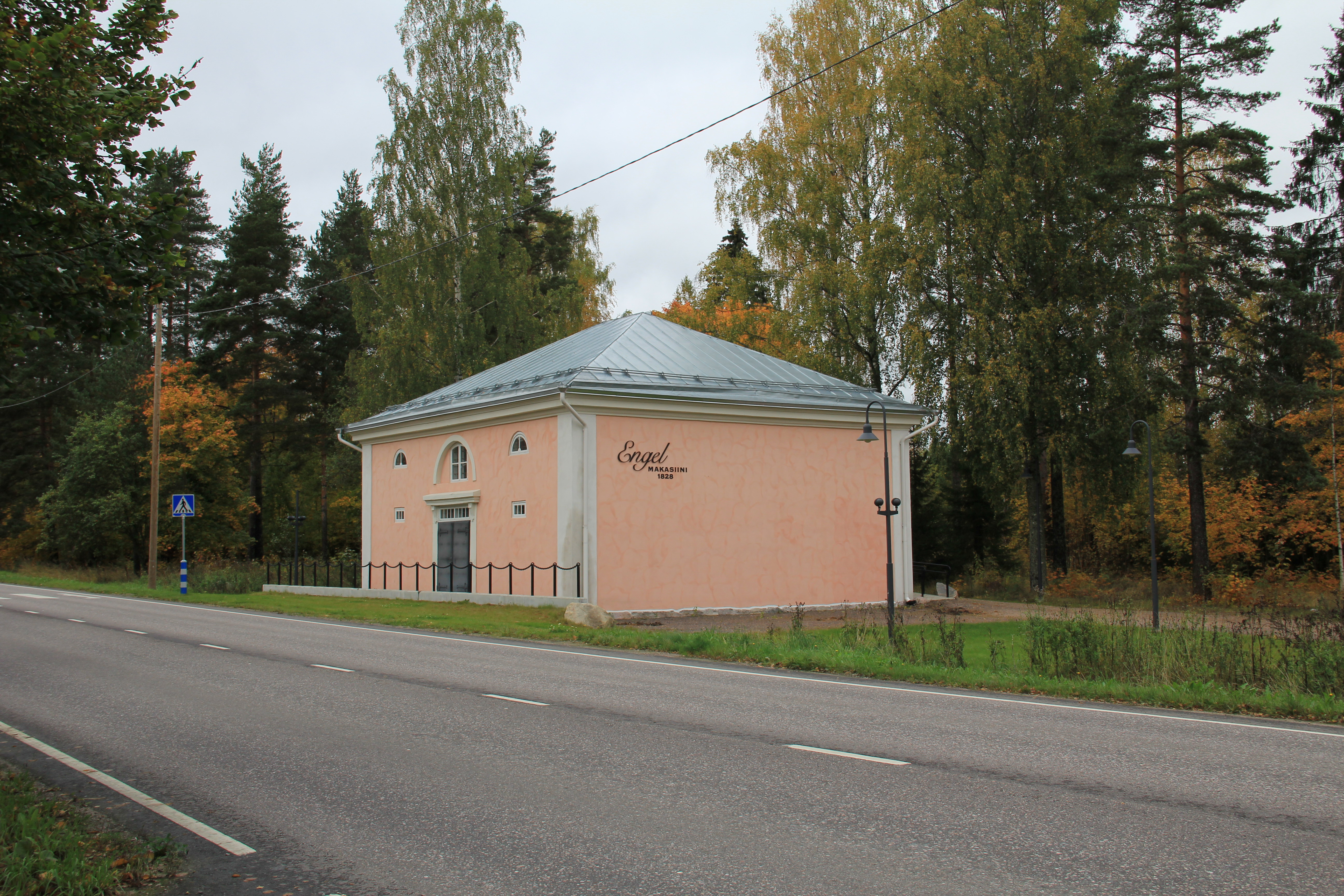 Warehouse of Ersta Manor in Villähde, Nastola, Finland. It was designed by Carl Ludvig Engel. Completed in 1828, restored in 2009.